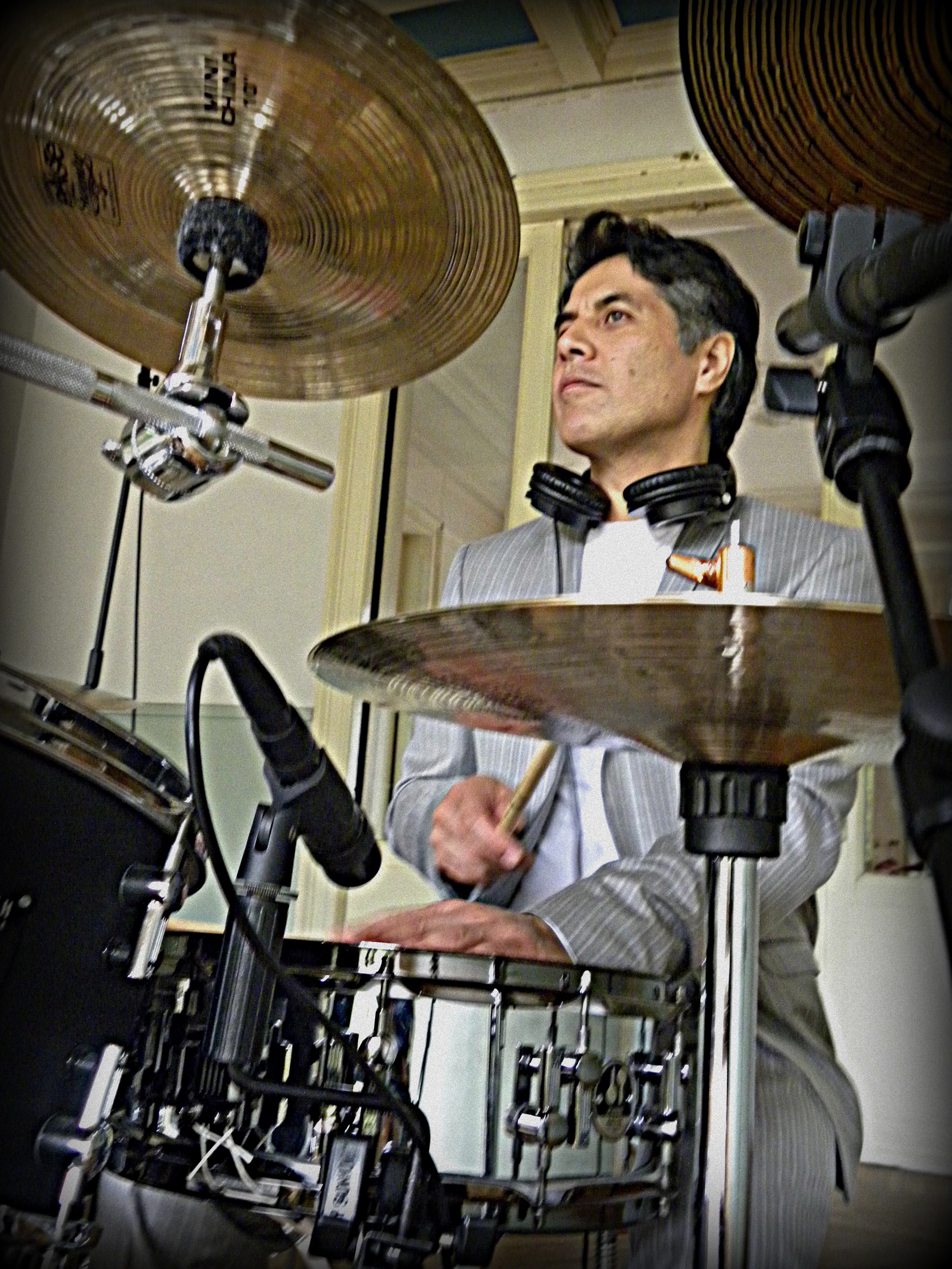 Juan van Emmerloot, update picture 2012